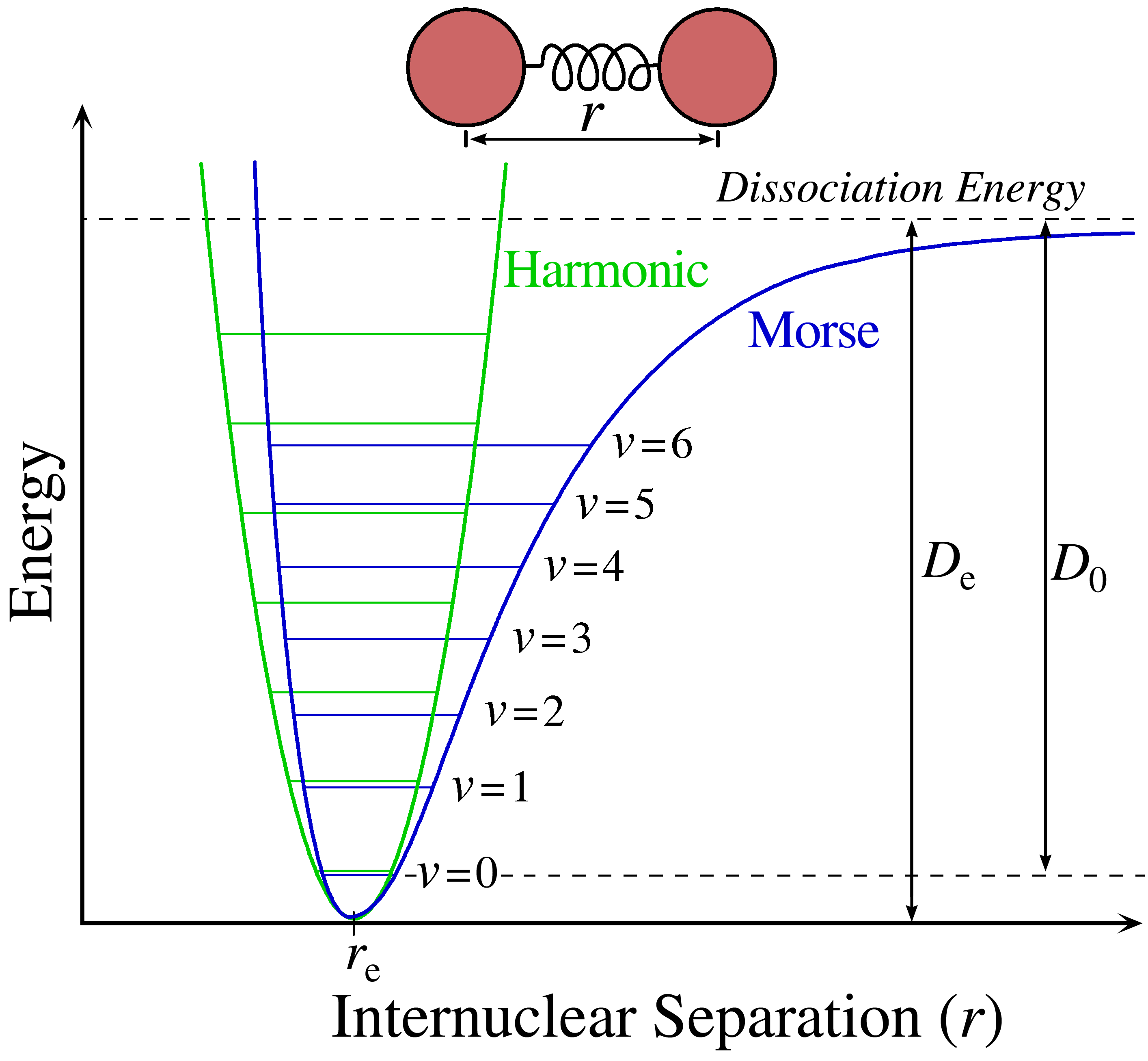 Graphical depiction of the Morse potential with a harmonic potential for comparison. Created by Mark Somoza March 26 2006.